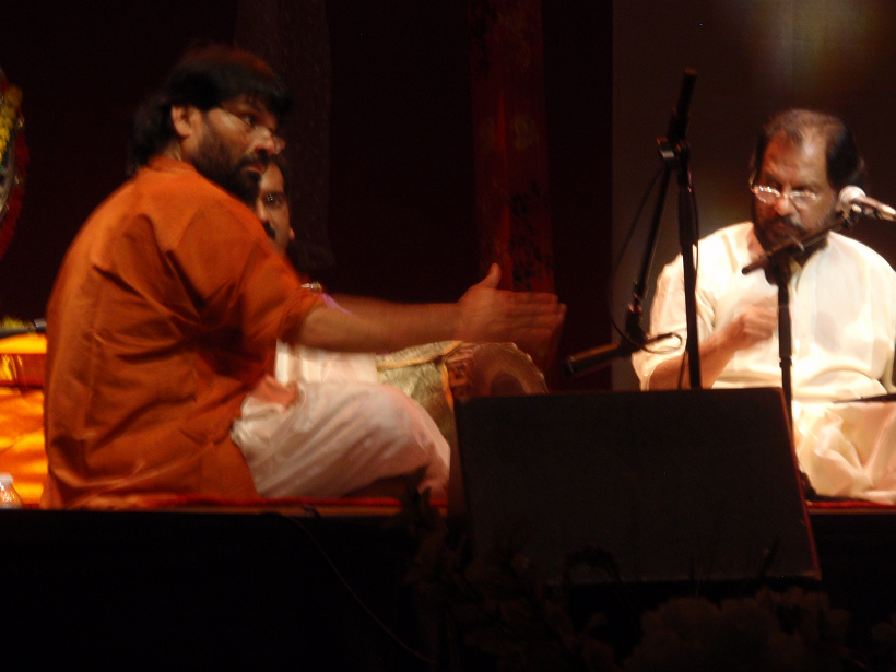 T S Nandakumar performing with Dr K J Yesudas in Atlanta,USA